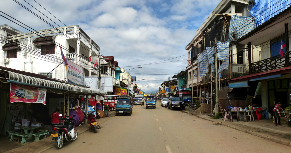 Huay Xai, Bokeo Province, Laos.